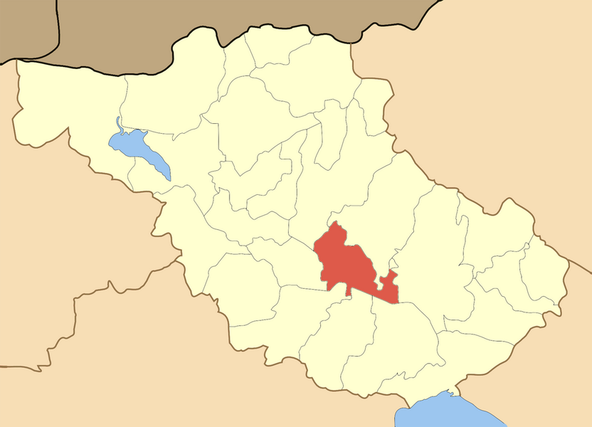 Locator map of Strimonas municipality in Serres perfecture in Greece.